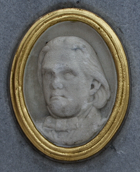 Plaque of Wilhelm Wilde from his memorial in Plau am See